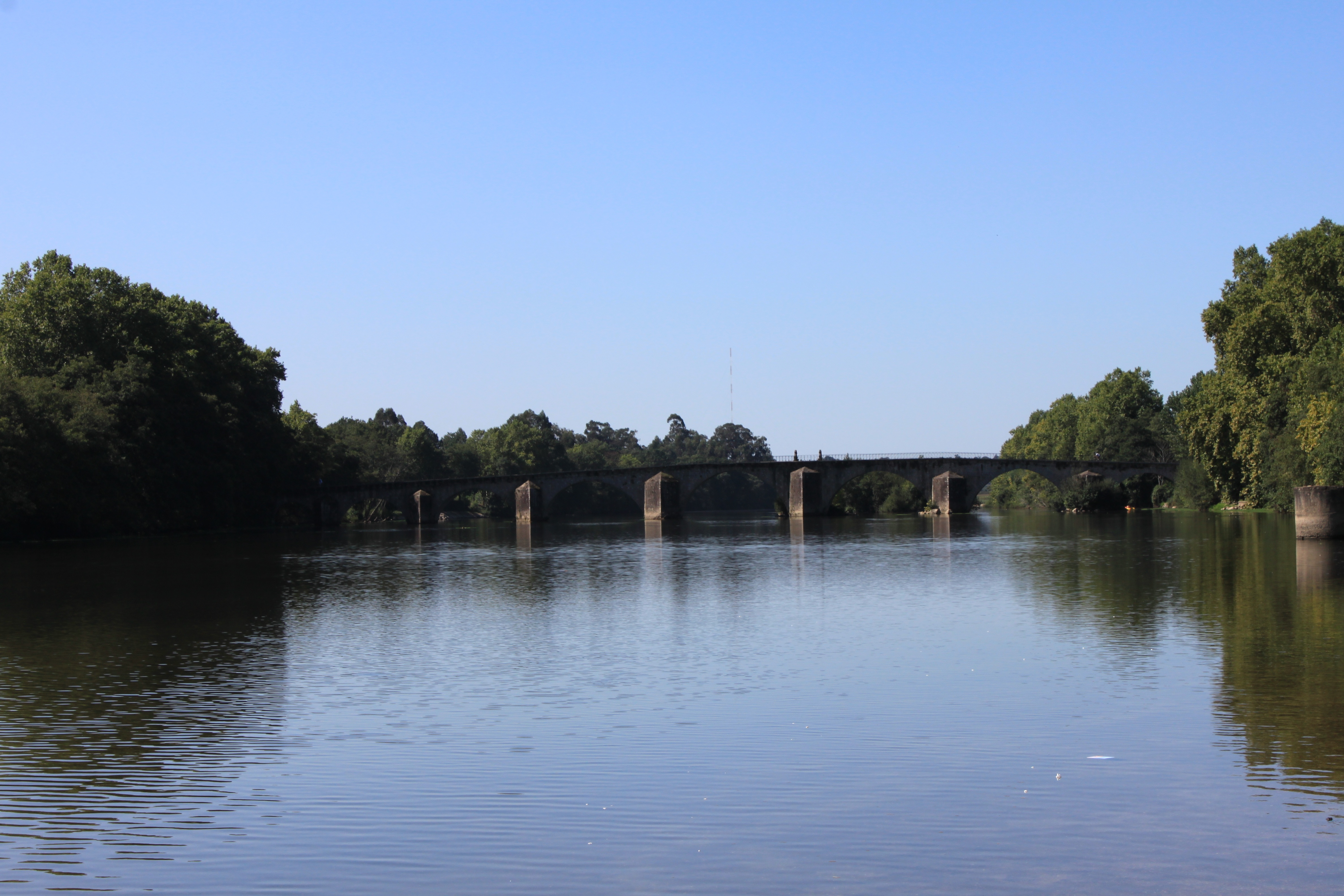 This file was uploaded for Wiki Loves Monuments in Portugal with the unique identifier 97001697.